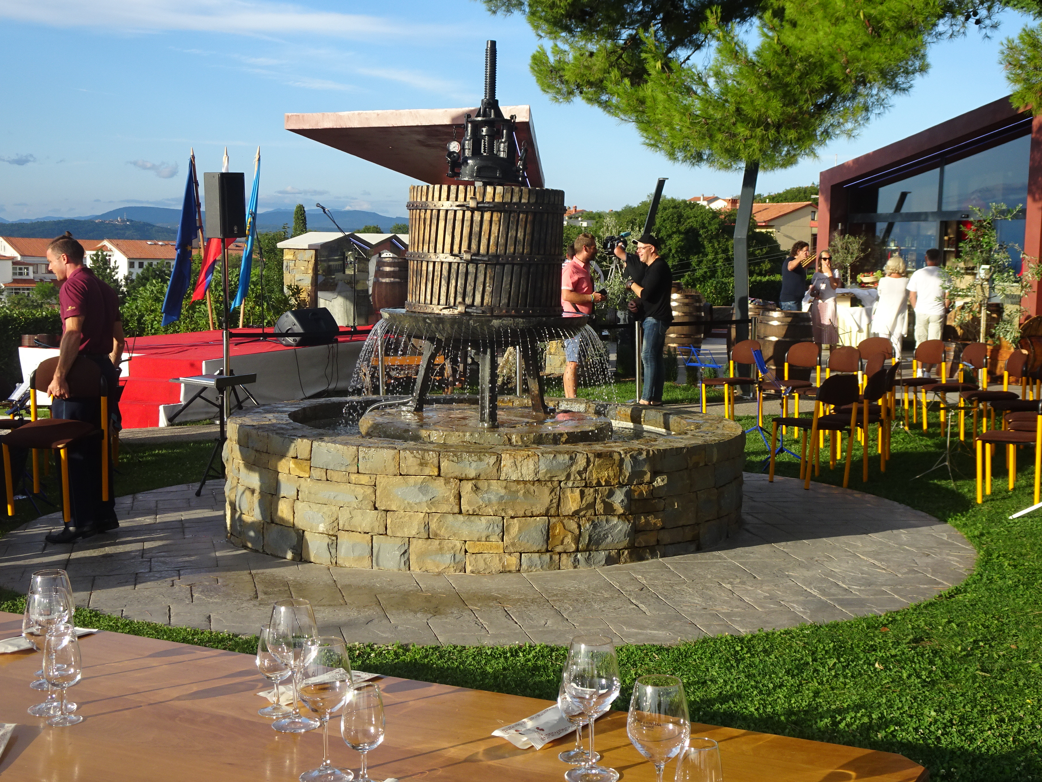 Marezige fountain